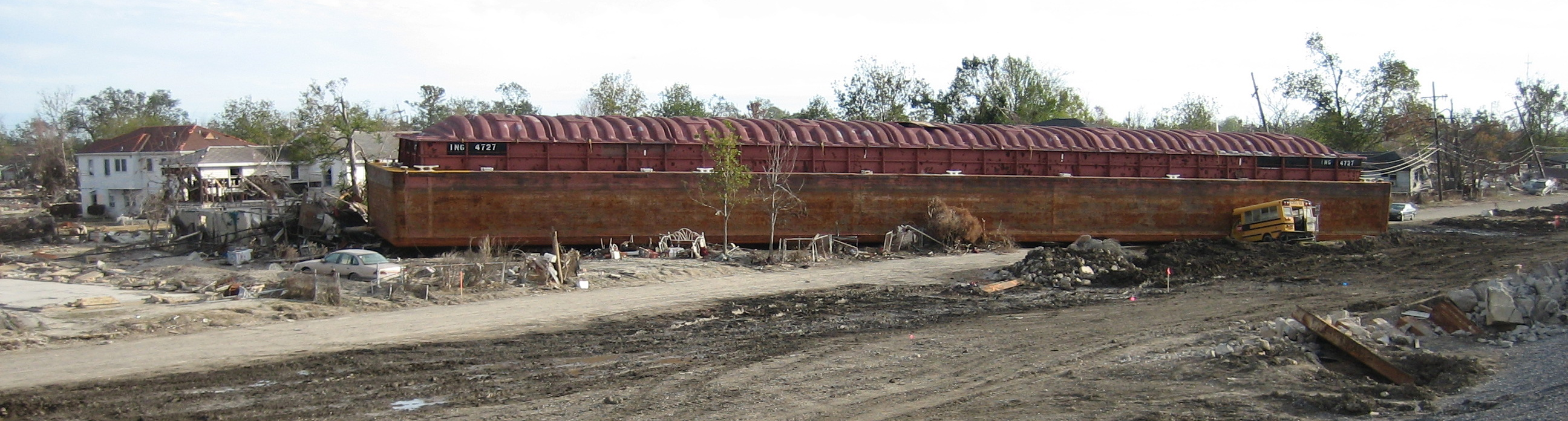 New Orleans after Hurricane Katrina: Barge that landed in Lower 9th Ward neighborhood. Area around and under the barge was a residential neighborhood before the nearby Industrial Canal levee breach. Note school bus partially under the barge.